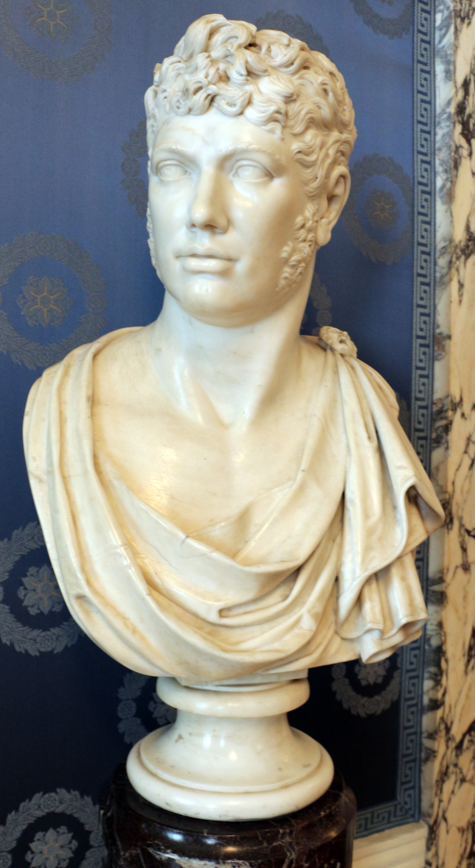 Museo del Teatro alla Scala (Milan)